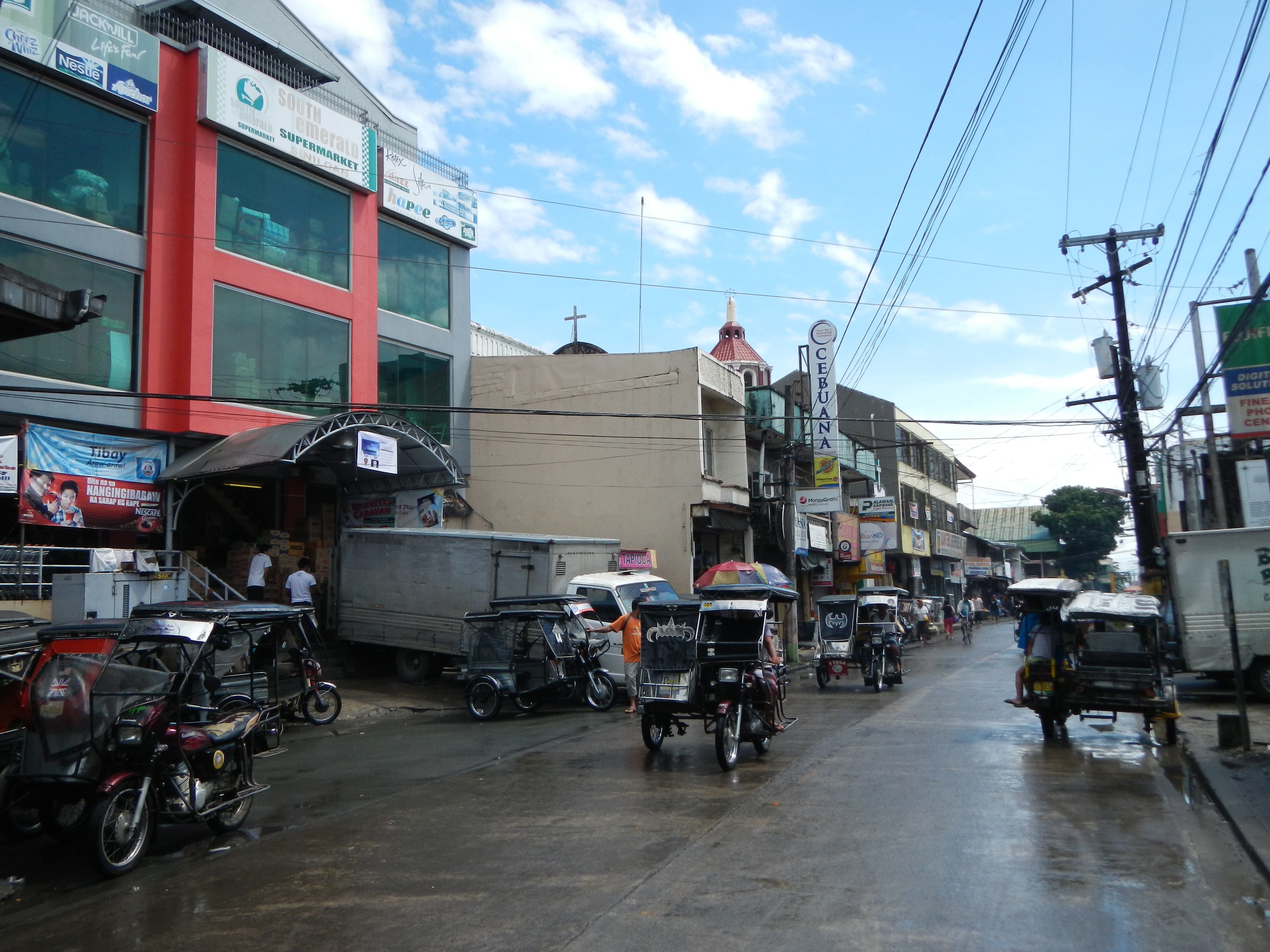 UploadWizard photos -- (General description, 3-dimension angle by angle photography of this town, church & landmarks) --- Barangay I. Mendiola and its Welcome arch, Town Proper, Centro, downtown and business center, including QCRB bank, Rural Bank of Pangil, Inc. building, of -- Siniloan, Laguna [1] & the -- Siniloan River under Paawas bridge, - Siniloan, Laguna [2][3] (subdivided into 20 barangays. Of these, 13 are classified as urban and 7 are classified as rural. Coordinates: 14°26'3"N 121°28'58"E[4] [5]). (Note: I decided to re-take or re-photograph these landmark town photos since the sun was so good and before the weather was bad).